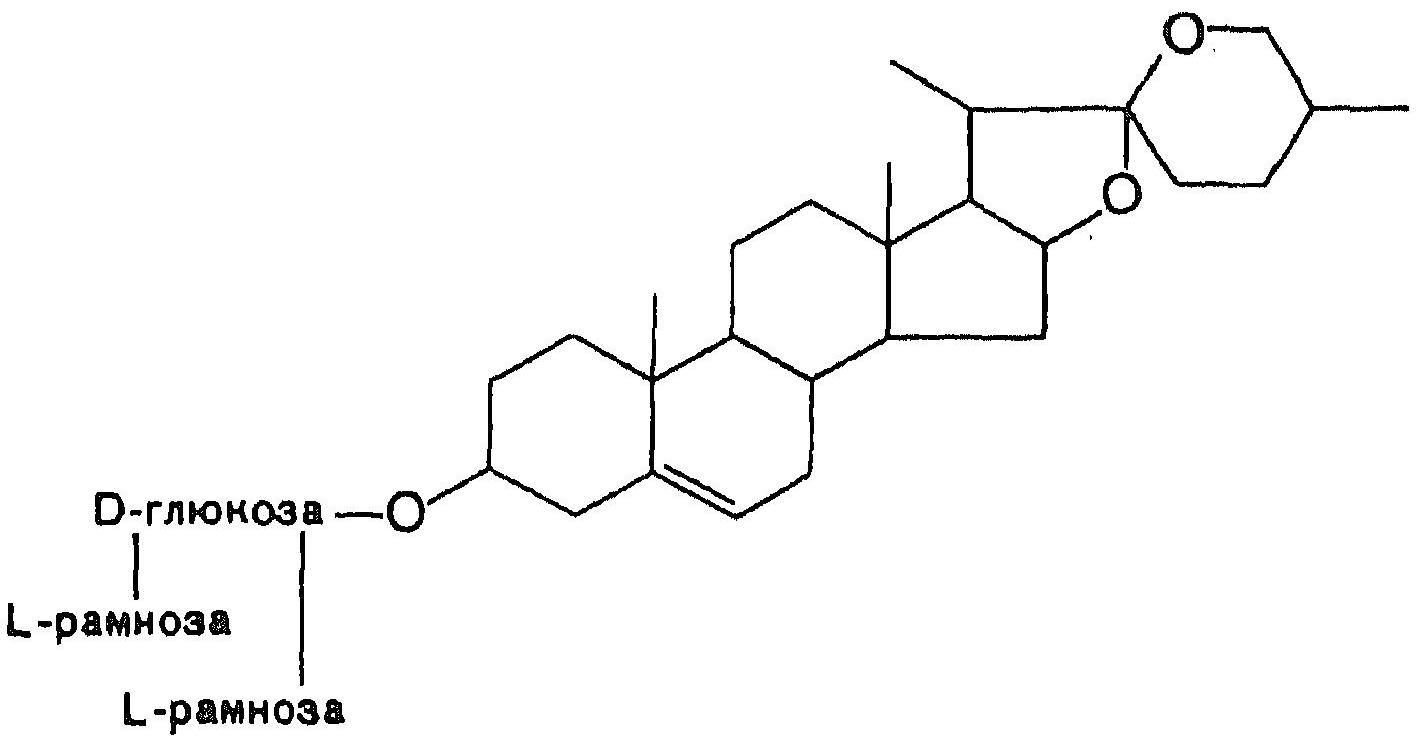 Dioscin structure: diosgenin with carbohydrates